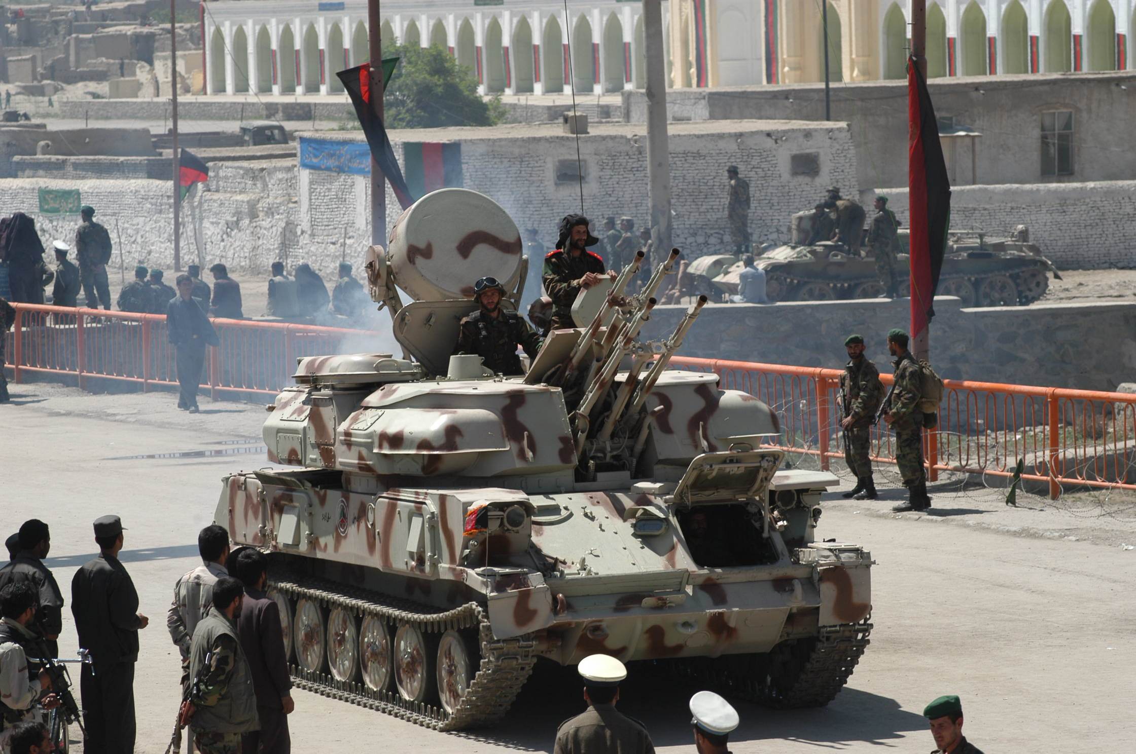 ZSU 23-4 of the Afghan National Army at Kabul